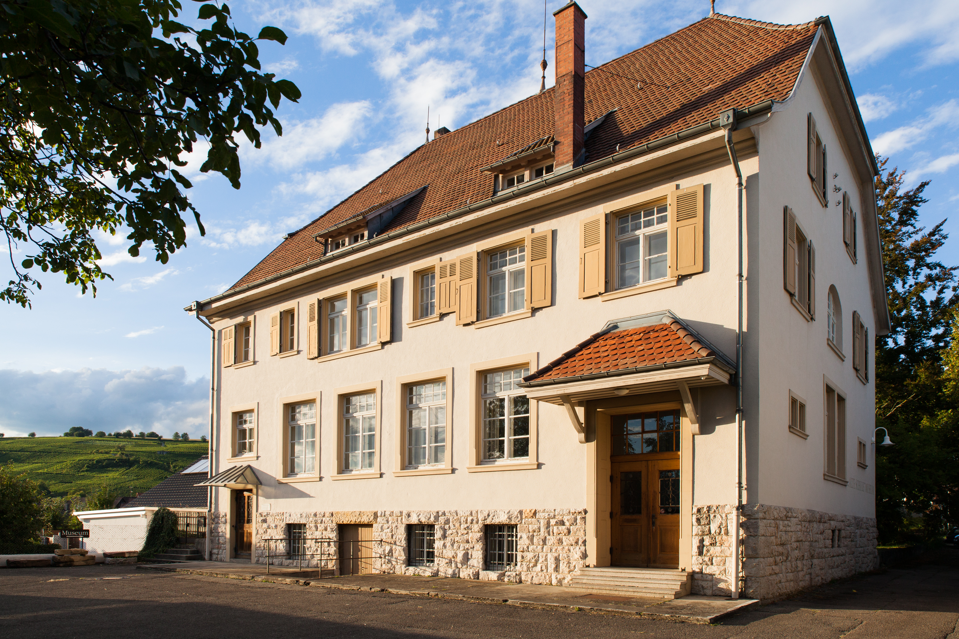 Museum in the old shool house at Efringen-Kirchen